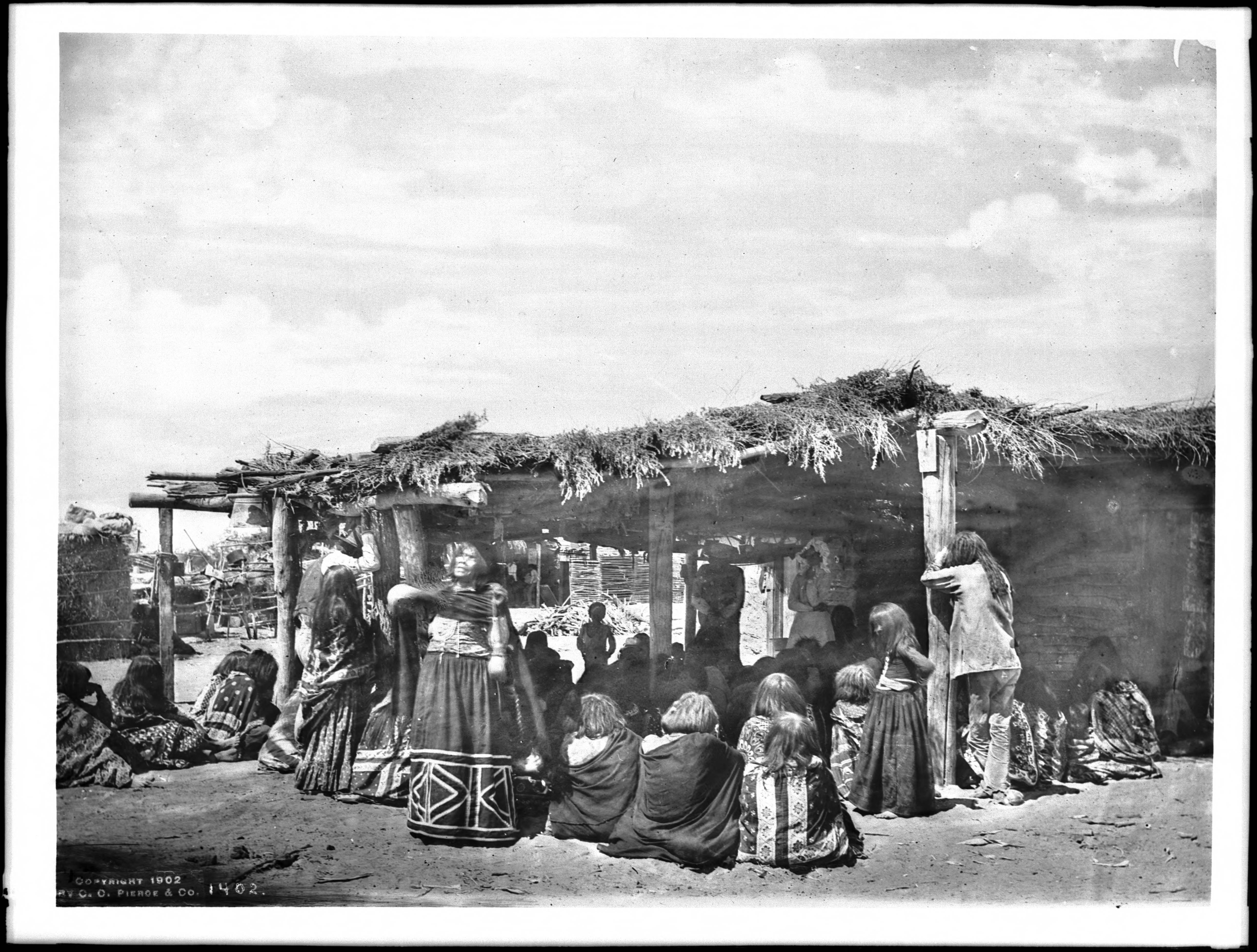 Group of Mojave Indians mourning over the body of their dead chief, Sistuma, in front of a small dwelling with a thatched roof, ca.1902 Photograph of a group of more than 30 Mojave Indians mourning over the body of their dead chief, Sistuma, standing or sitting under the thatched porch roof in front of a small dwelling with a thatched roof. Many of them are wearing blankets draped about their shoulders. Other dwellings are visible behind. Call number: CHS-1402 Photographer: Pierce, C.C. (Charles C.), 1861-1946 Filename: CHS-1402 Coverage date: circa 1902 Part of collection: California Historical Society Collection, 1860-1960 Format: glass plate negatives Type: images Part of subcollection: Title Insurance and Trust, and C.C. Pierce Photography Collection, 1860-1960 Repository name: USC Libraries Special Collections Accession number: 1402 Archival file: chs_Volume91/CHS-1402.tiff Repository address: Doheny Memorial Library, Los Angeles, CA 90089-0189 Geographic subject (country): USA Format (aacr2): 2 photographs : glass photonegative, photoprint, b&w ; 17 x 22 cm. Rights: Digitally reproduced by the USC Digital Library; From the California Historical Society Collection at the University of Southern California Subject (adlf): tribal areas Project: USC Repository Contributing entity: California Historical Society Date created: circa 1902 Publisher (of the digital version): University of Southern California. Libraries Format (aat): photographic prints; photographs Geographic subject (state): Arizona Legacy record ID: chs-m15016; USC-1-1-1-13931 Geographic subject: deserts: Mojave Desert Access conditions: Send requests to address or e-mail given. Phone (213) 821-2366; fax (213) 740-2343. Subject (file heading): Indians -- Mojave Subject (lcsh): Indians of North America; Mohave Indians; Clothing and dress; Dwellings; Funeral rites and ceremonies